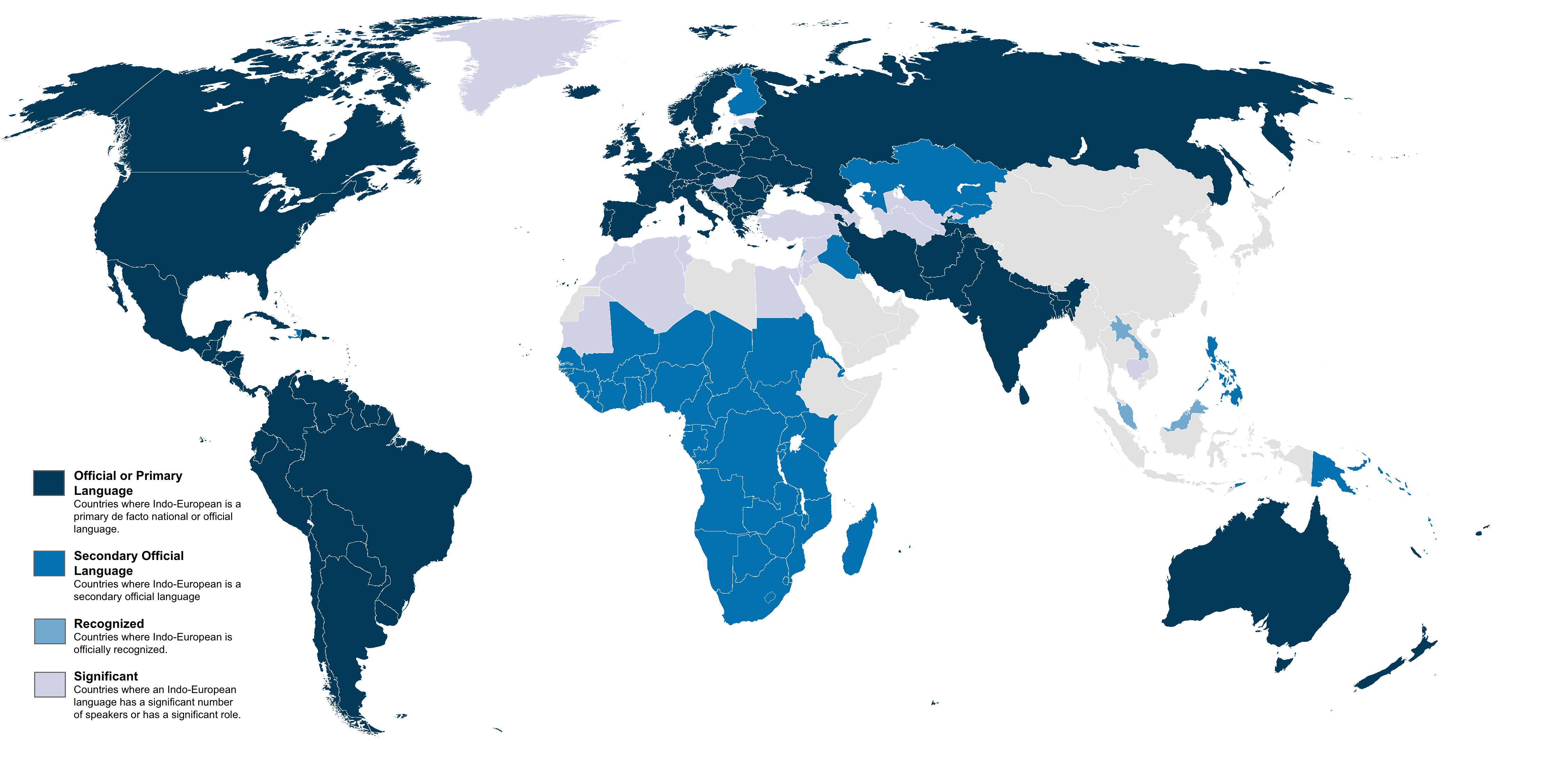 Countries where Indo-European languages are either de facto national or official languages.